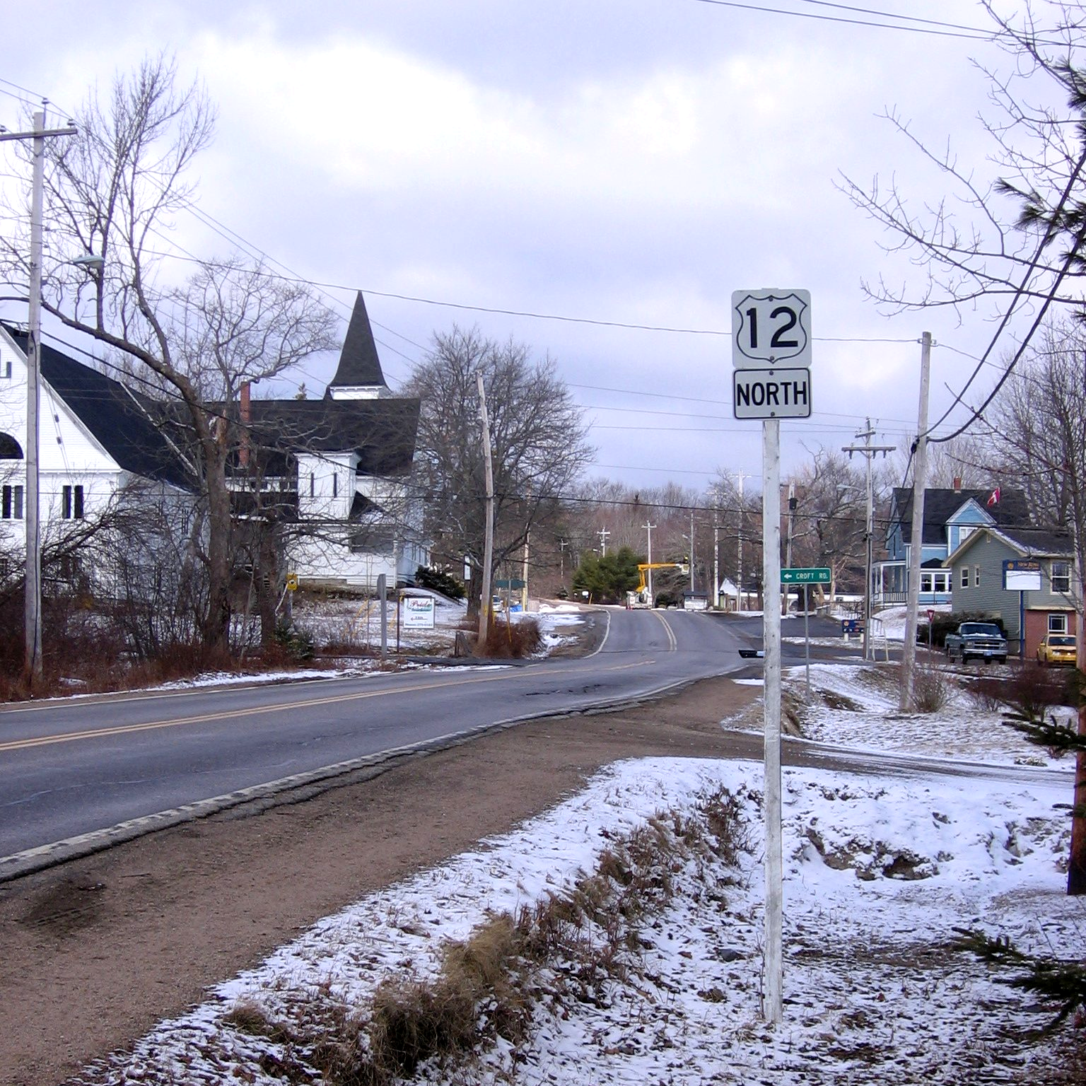 Roadside route sign